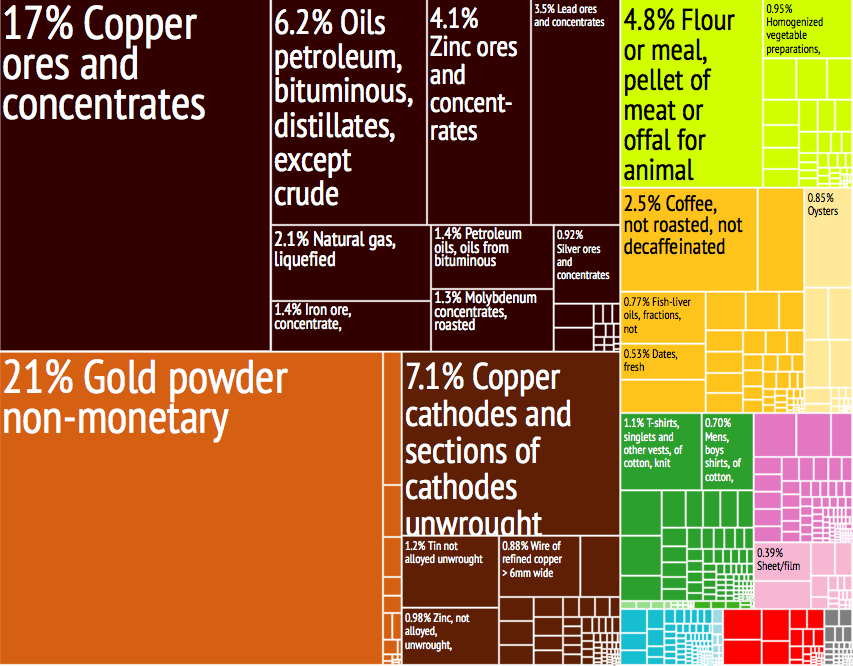 A proportional representation of Peru's exports.